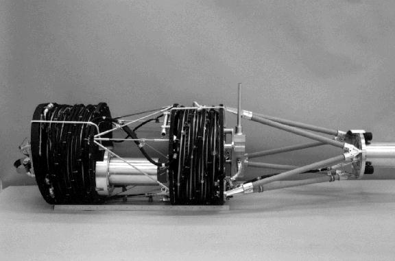 Photo of the Magnetometer (MAG) instrument that was incorporated into the Galileo spacecraft.